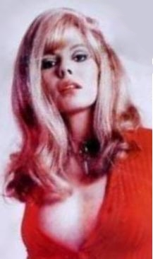 Nélida Lobato